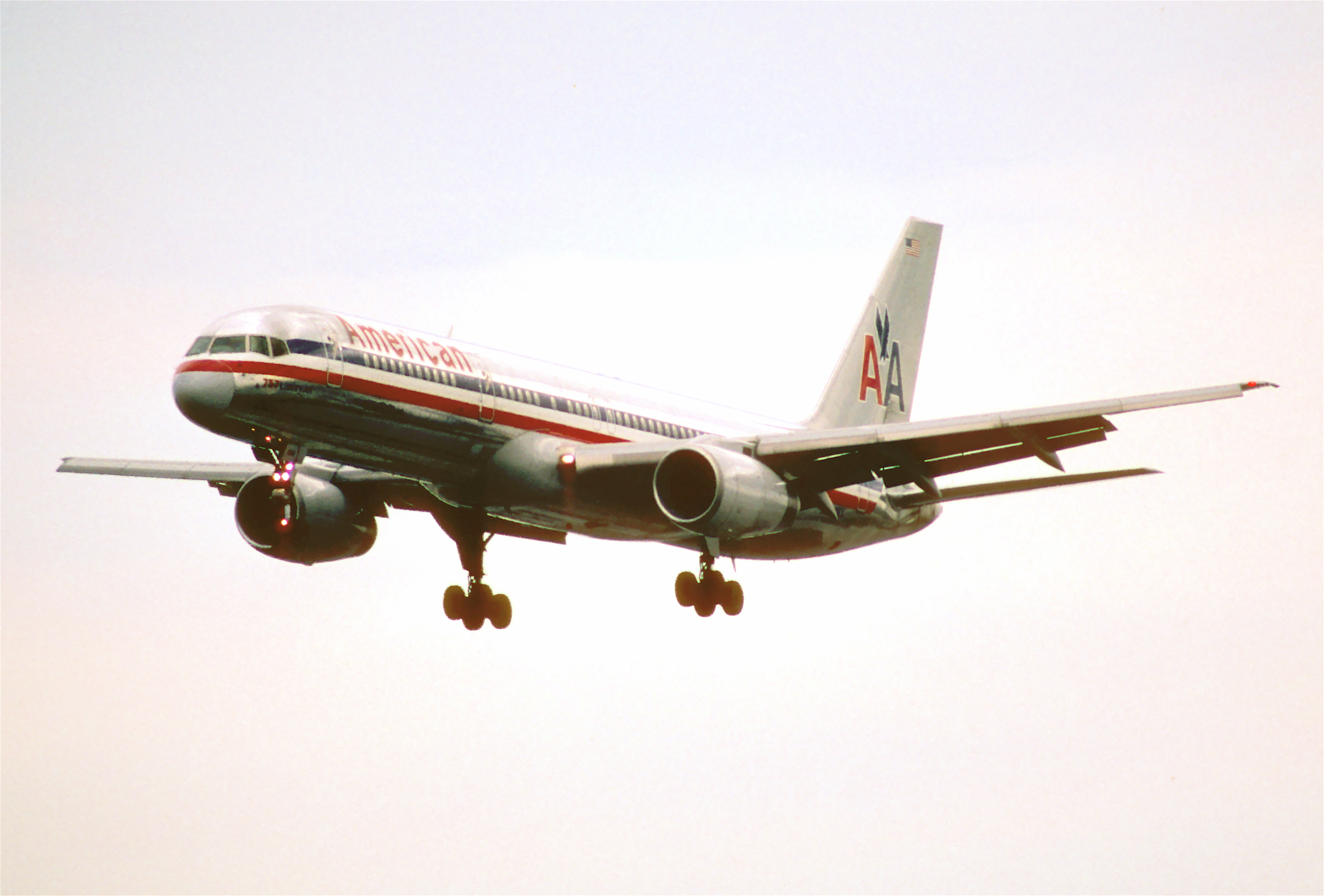 12ca - American Airlines Boeing 757-223; N650AA@MIA;31.01.1998